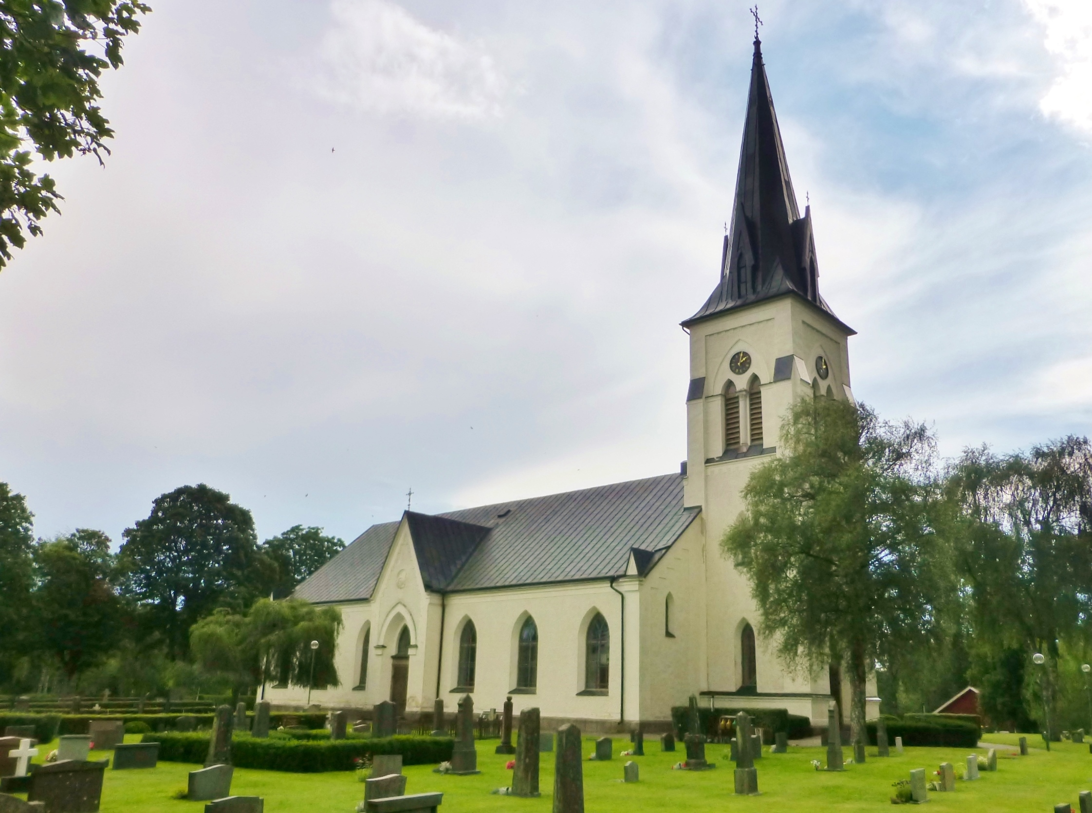 Fagerhults Church.The church was built in 1894 and designed by architect CG Löfquist. It was built in the Gothic Revival style.